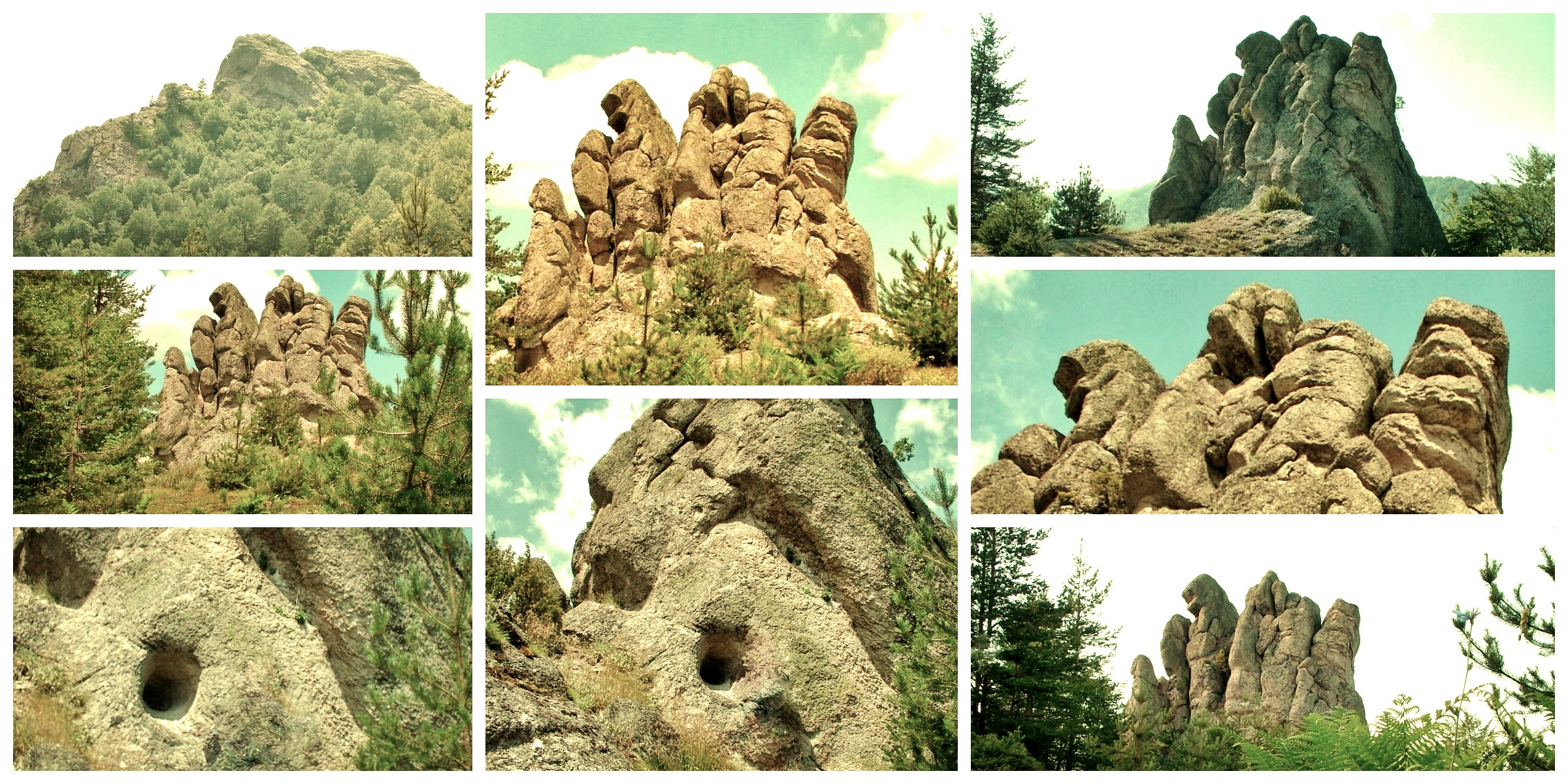 Kuz kaya BG